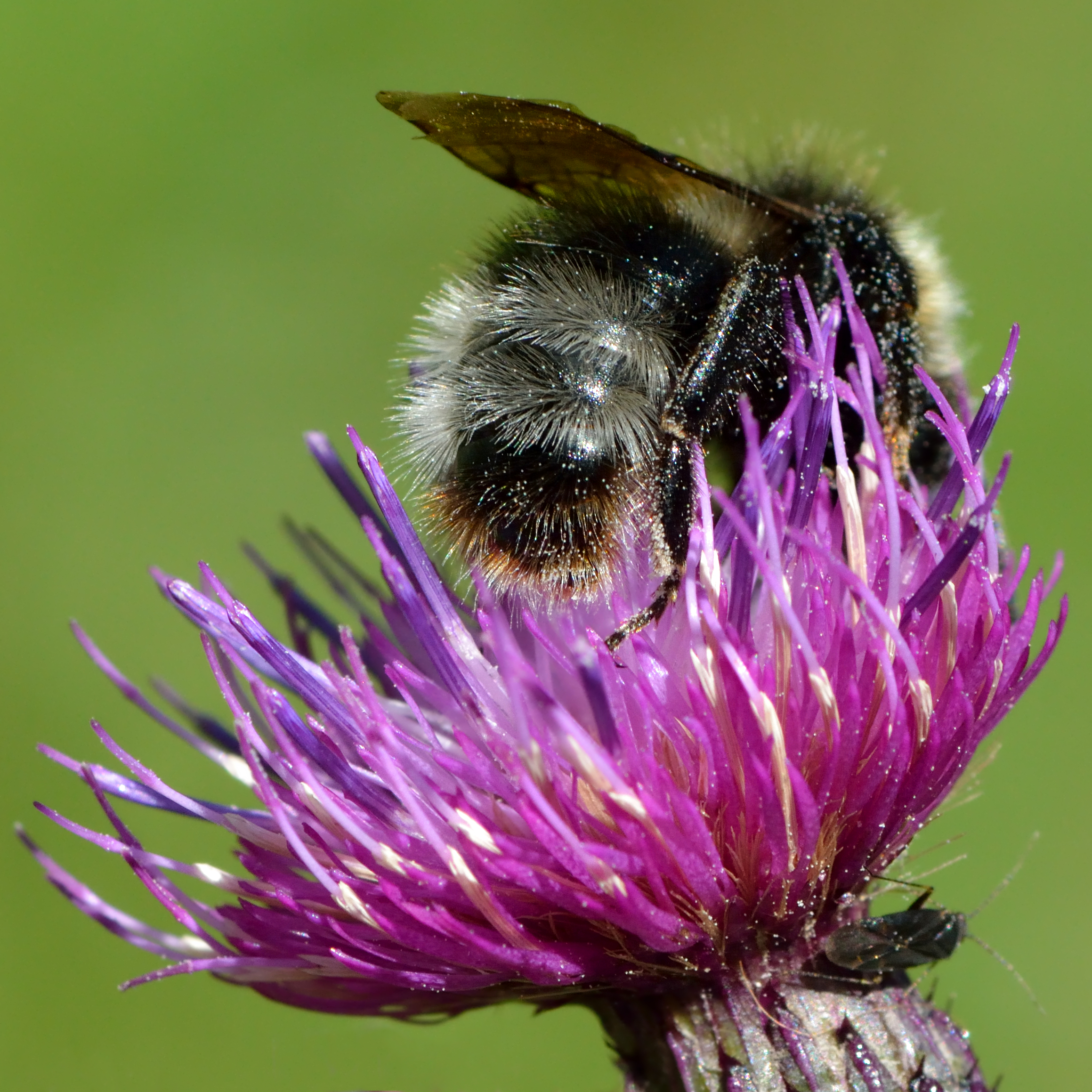 Male forest cuckoo bumblebee (Bombus sylvestris) on the swamp thistle (Cirsium palustre). Keila, Northwestern Estonia. This specimen could also be male Bombus norvegicus, exact identification could be done only under microscope.